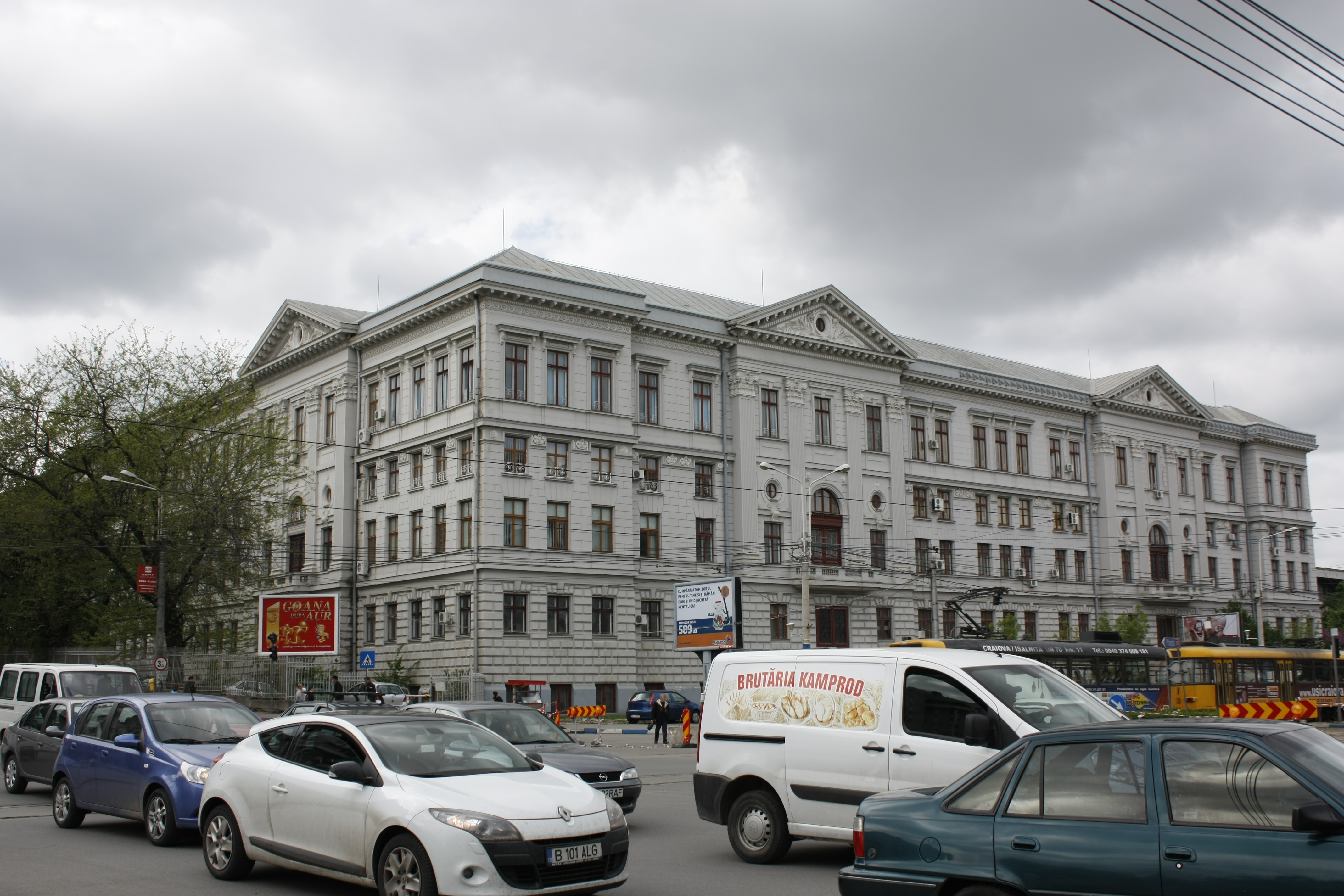 The University of Craiova, formerly the Palace of Justice.